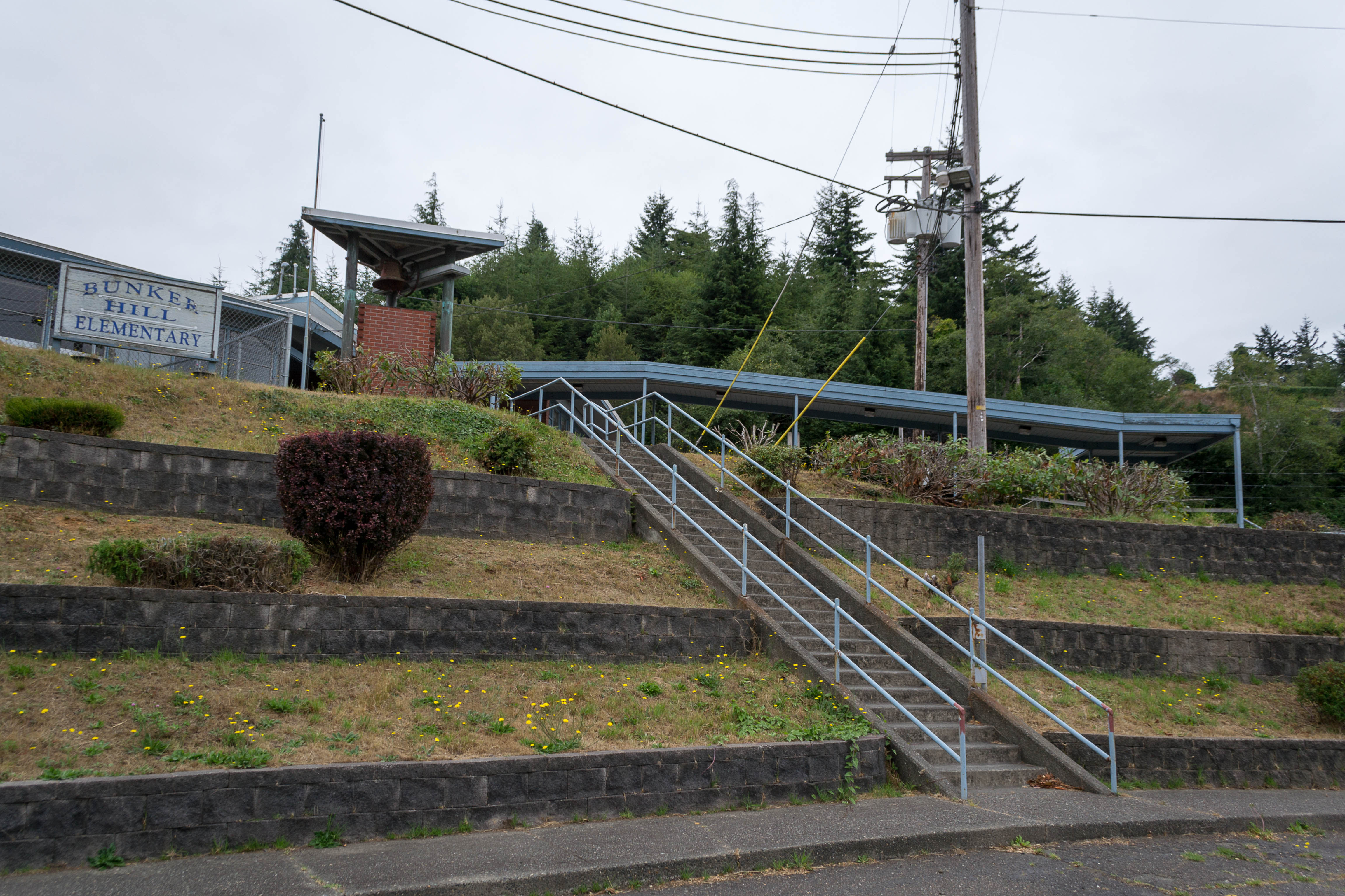 Bunker Hill Elementary, near the foot of Bunker Hill south of Coos Bay, Oregon